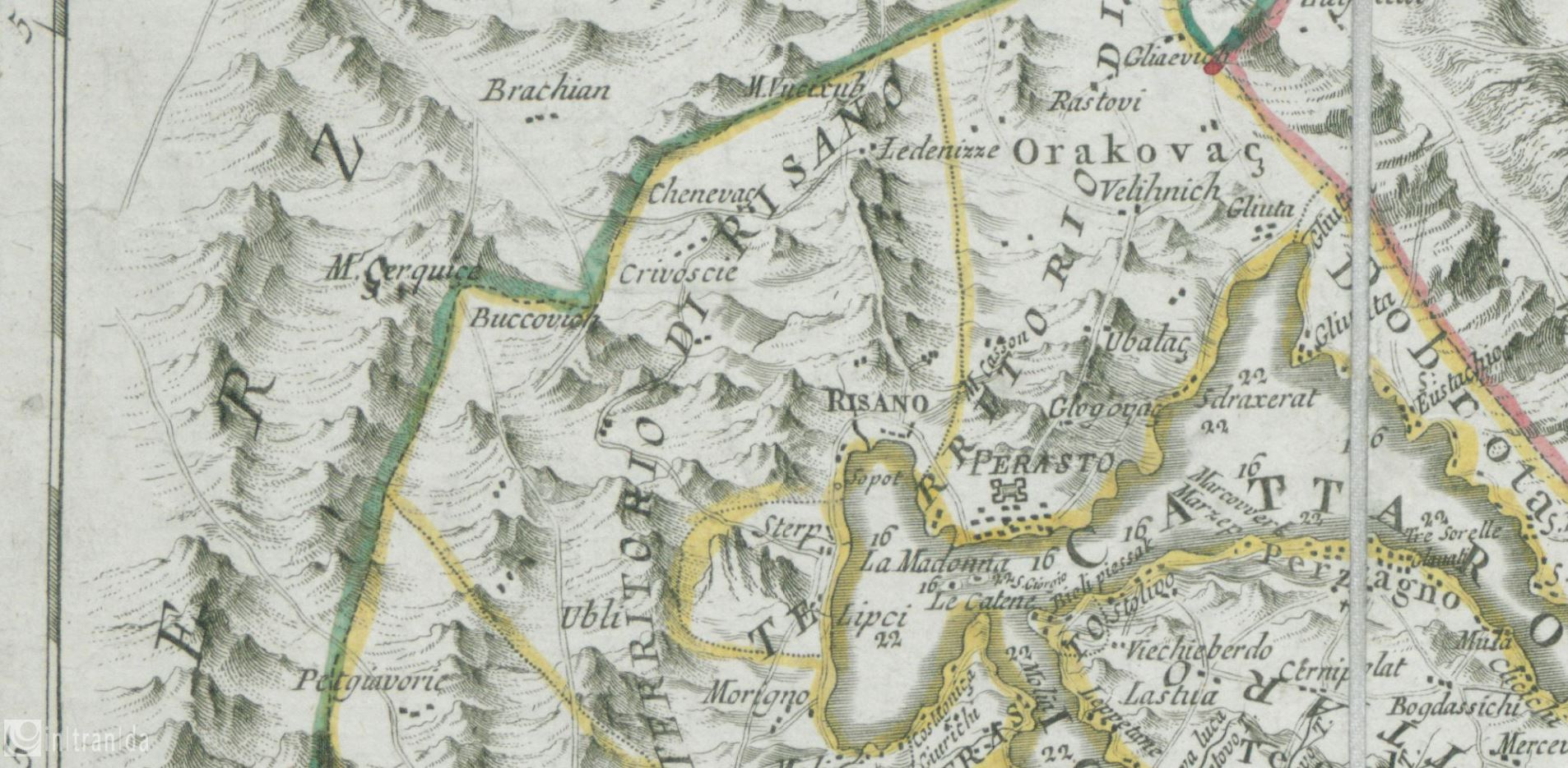 Nuova carta topografico della Bocche di Cattaro 1785 Ludovico Fuorlanetto